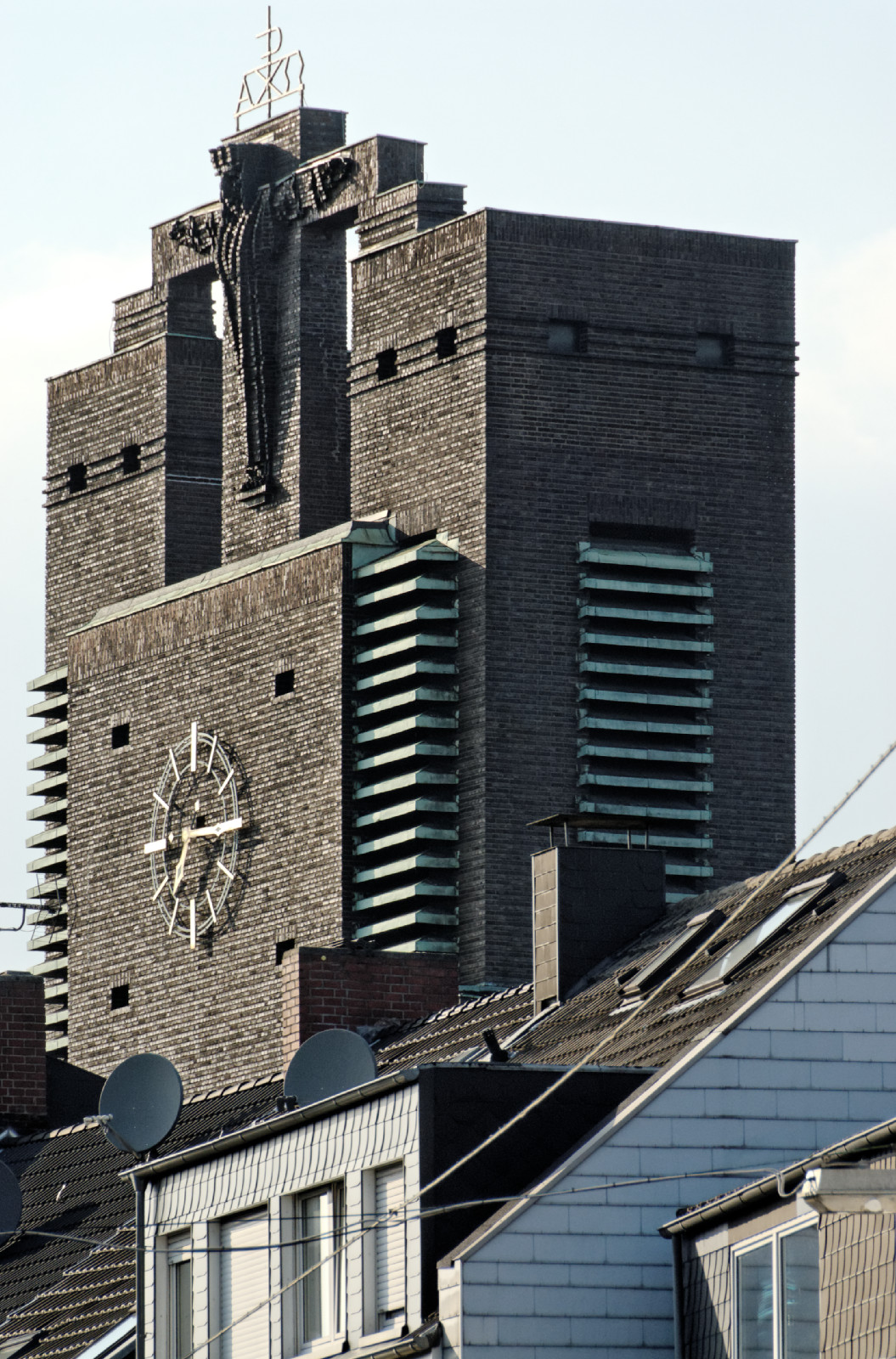 Tower of Holy Cross Church in Gelsenkirchen-Ückendorf, Germany This is a photograph of an architectural monument.It is on the list of cultural monuments of Gelsenkirchen